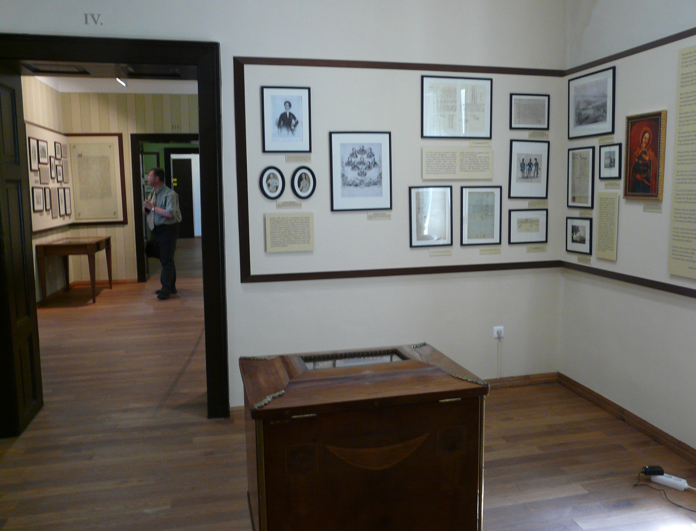 Detail of the exhibition of Imre Madách Memorial Museum in Csesztve